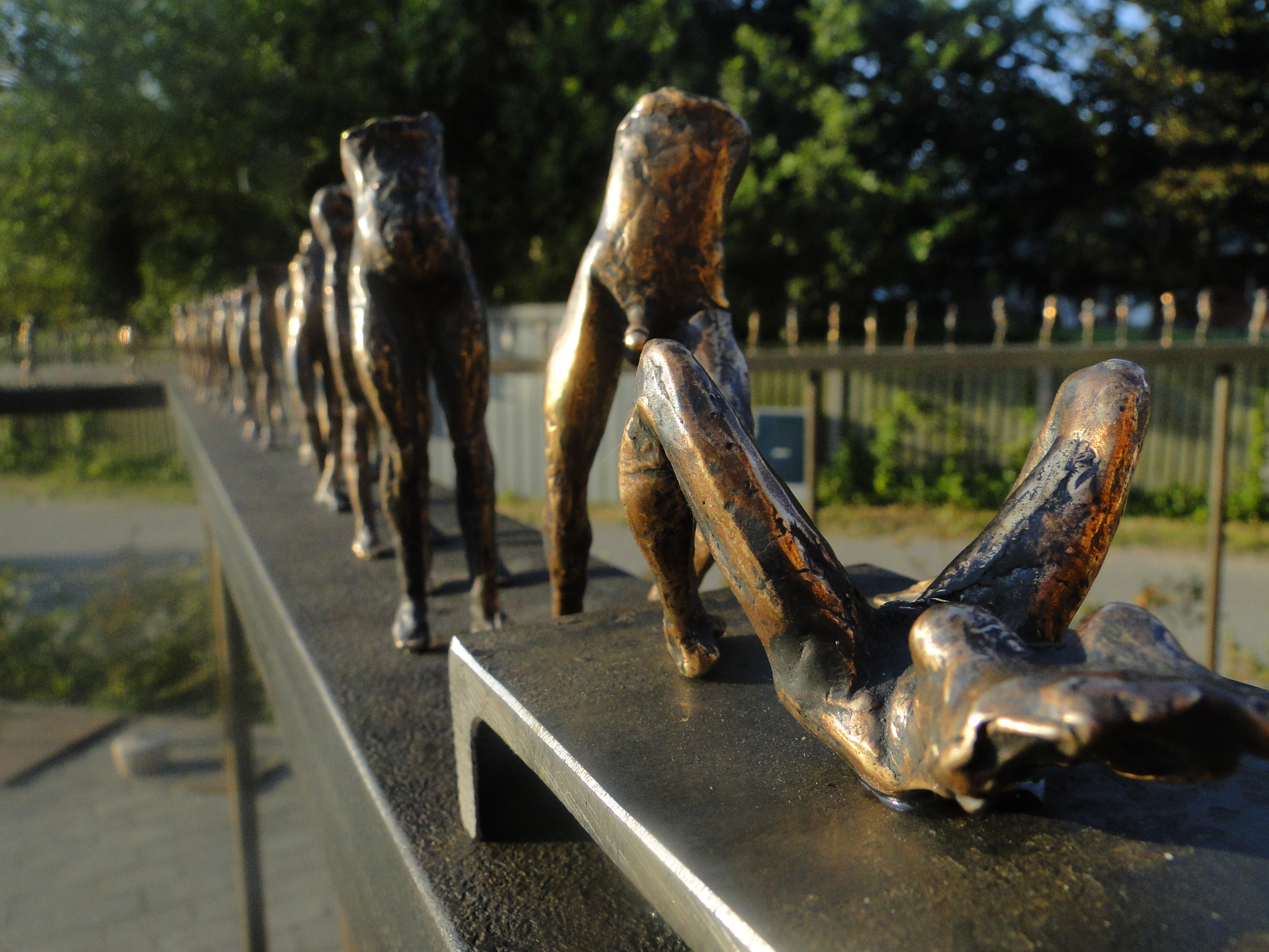 The sculpture "550+1" by the Danish artist Jens Galschiot. On the picture it is exhibited at Kulturmødet Mors in Denmark.